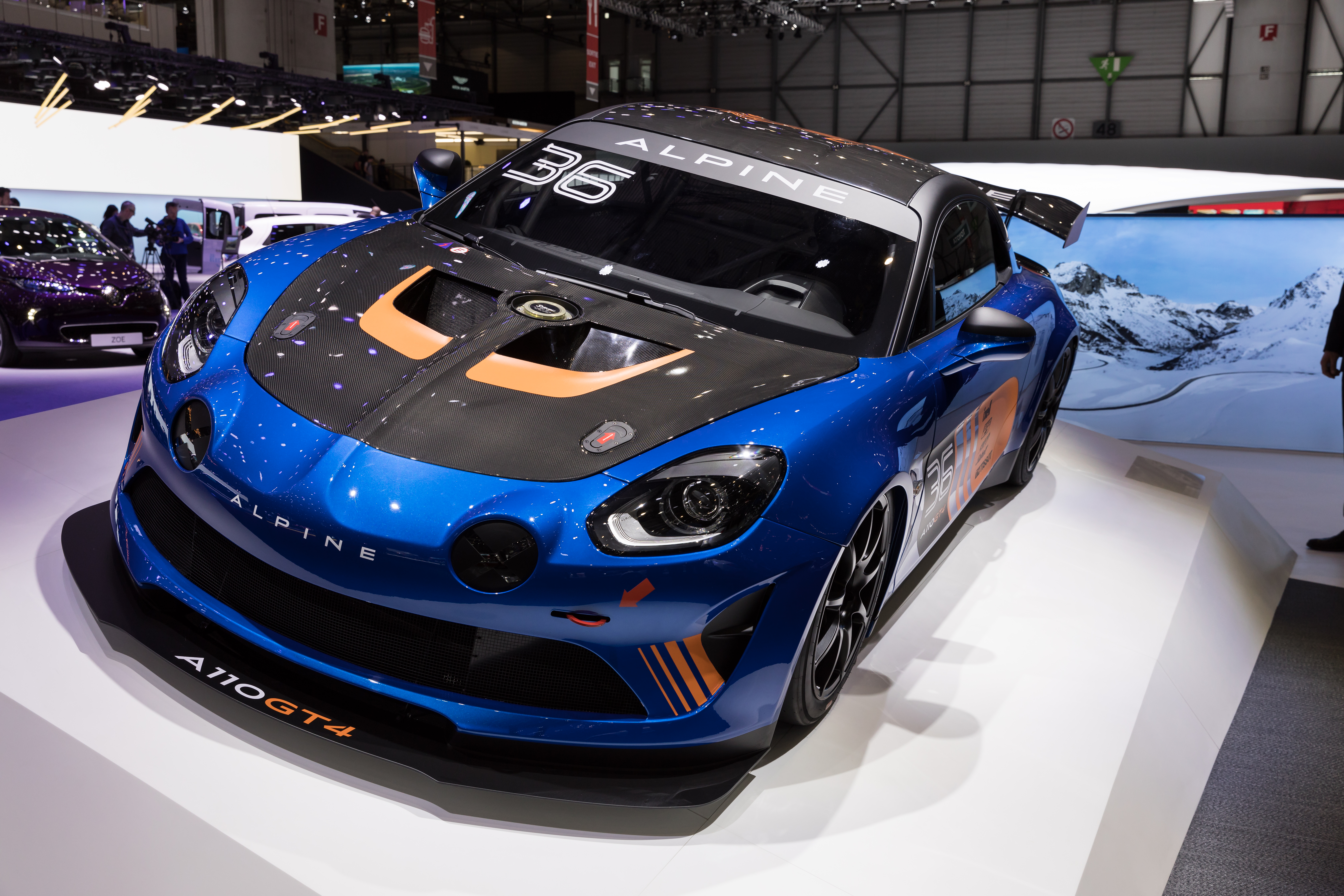 Geneva International Motor Show 2018